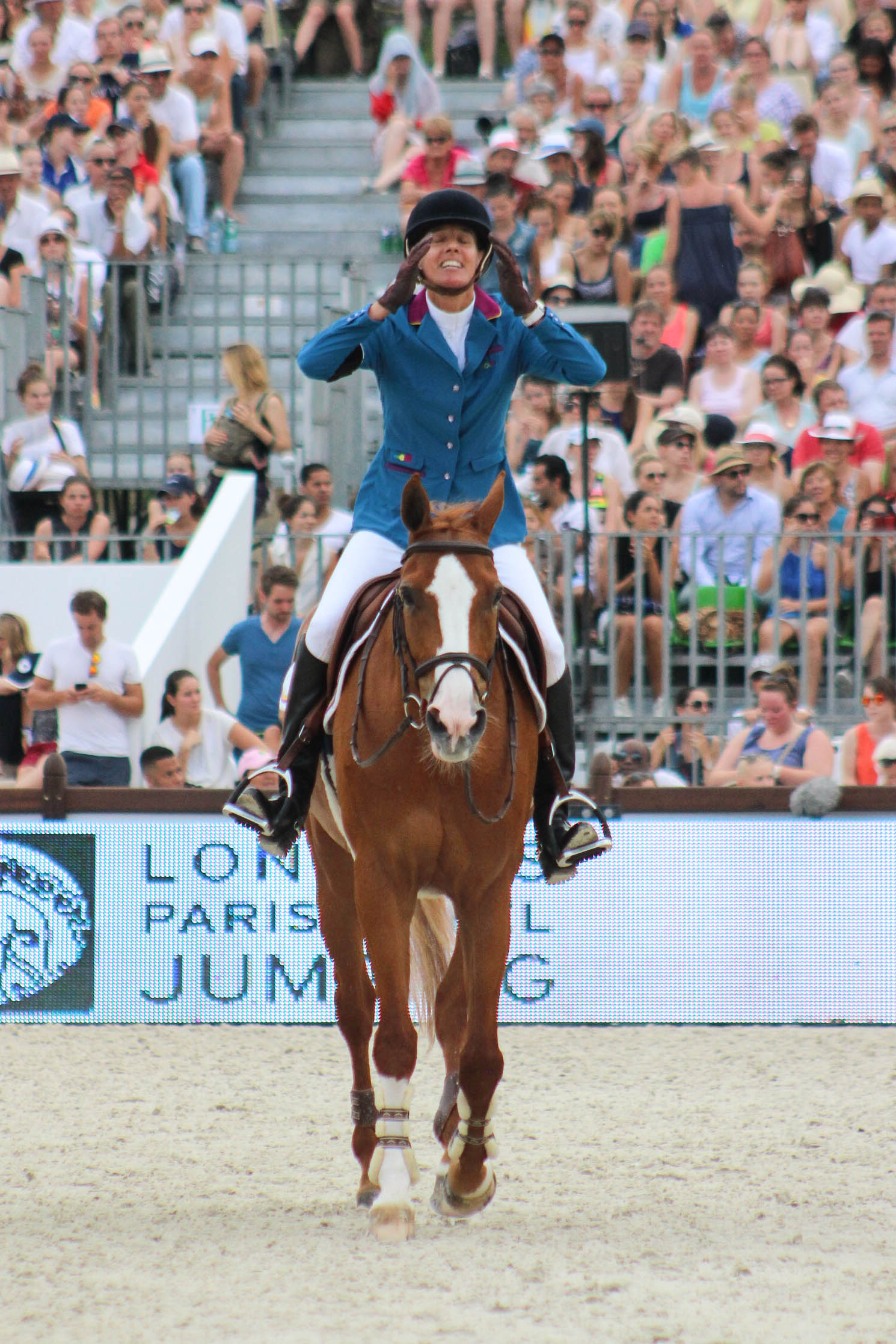 Diniz and Fot For Fun in Paris. Photo taken by Irene Elise Powlick